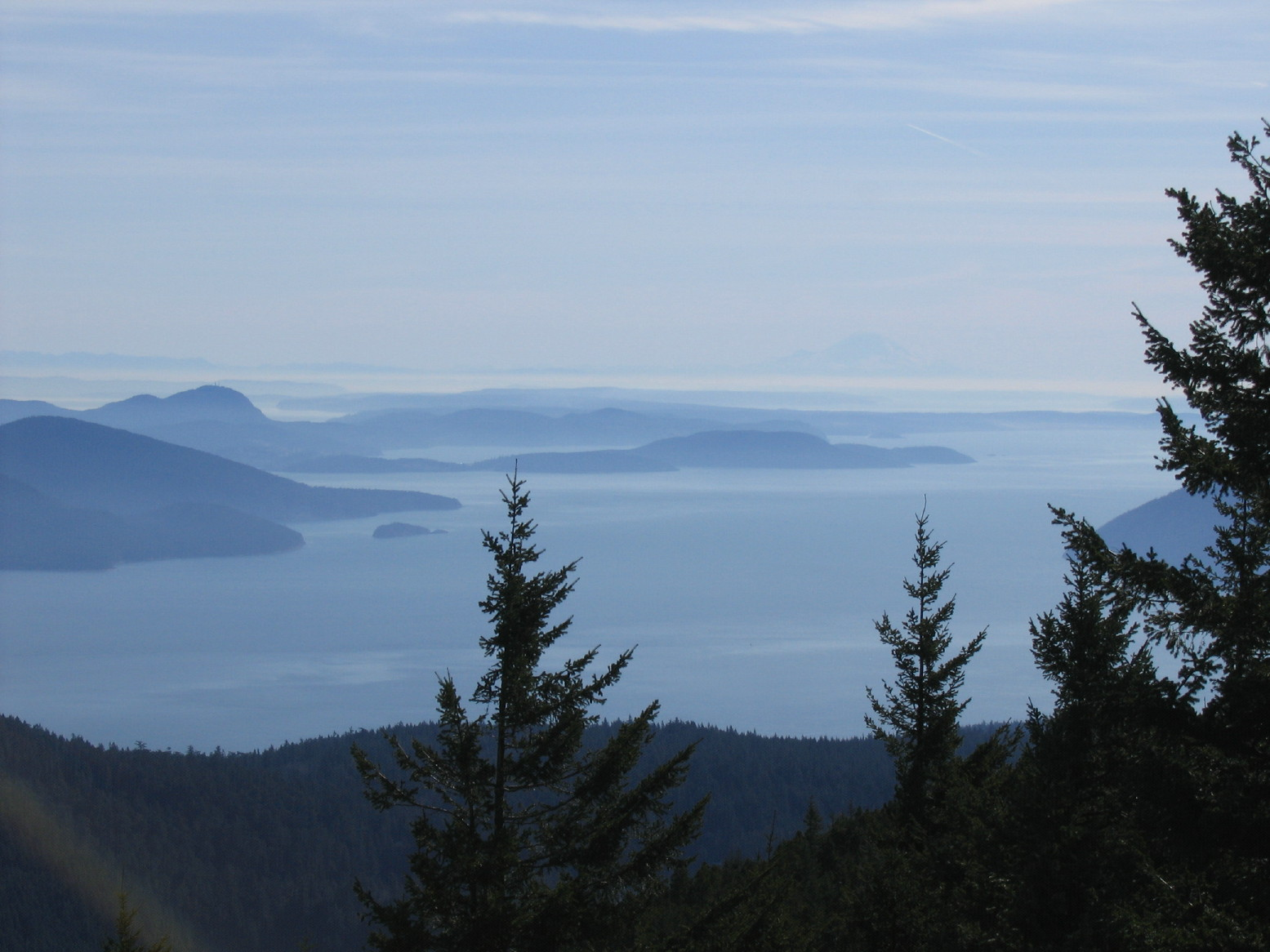 San Juans from Mt. Constitution (Orcas Island) looking towards Seattle with Mt. Rainier barely visible in the haze